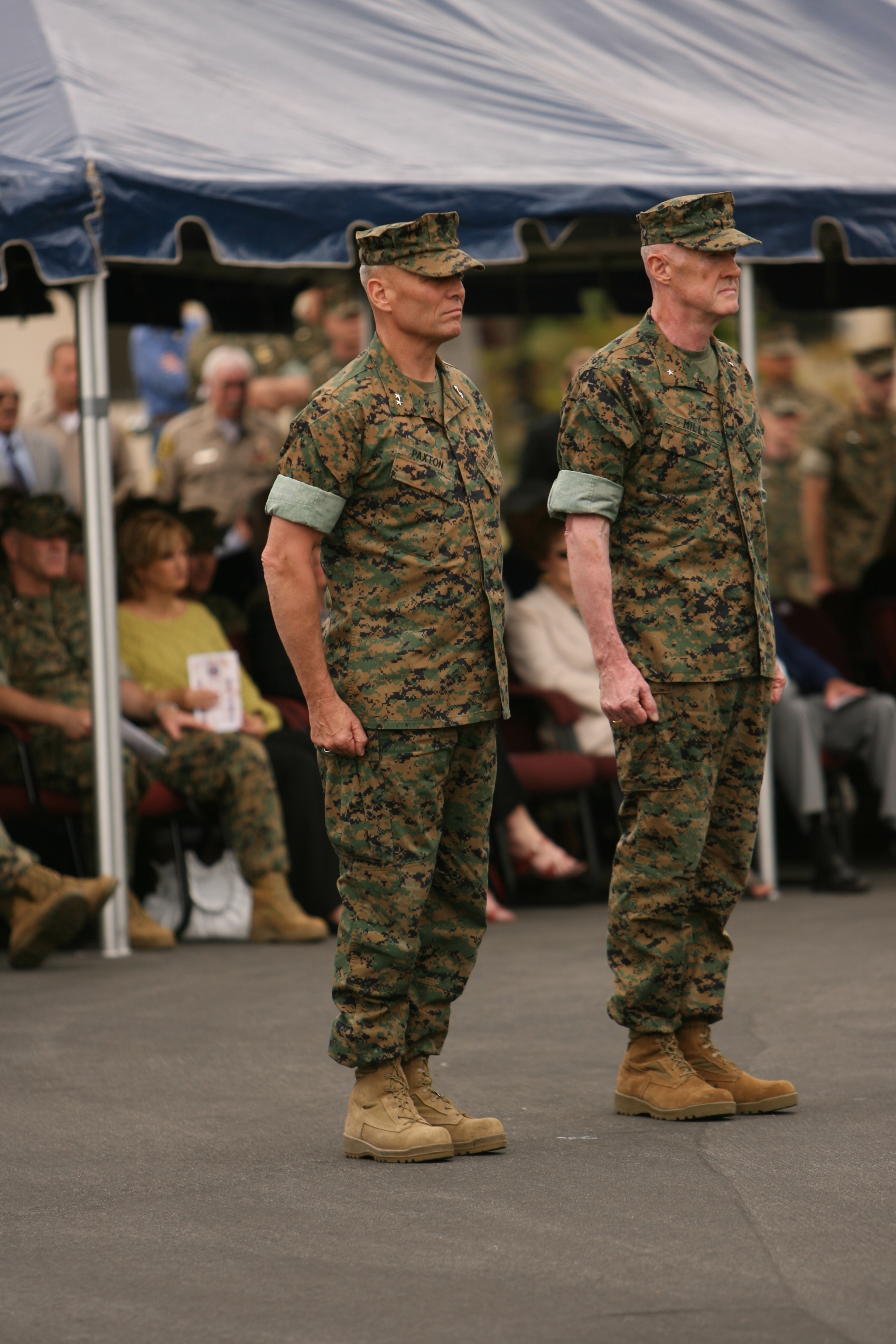 United States Marine Corps Major General John M. Paxton, Jr. stands by to relinquish command of the 1st Marine Division to Brigadier General Richard P. Mills in a ceremony May 22. Paxton served as the 1st Marine Division's Commanding General beginning August 2006.